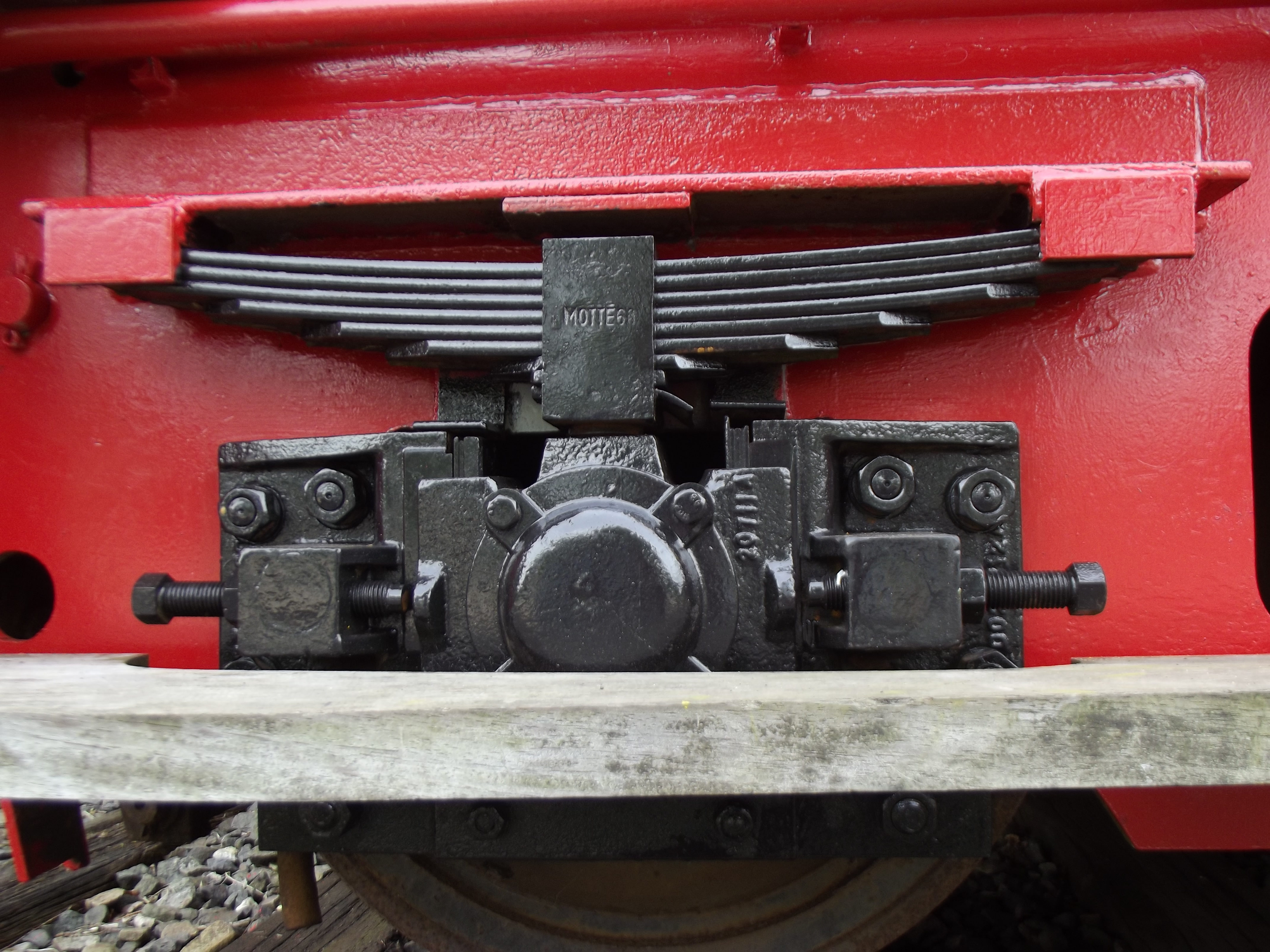 A leaf spring very similar to what is often seen on cars, only that here it belongs to a German locomotive which is permantly exhibited by a railway history museum in Metelen, Germany